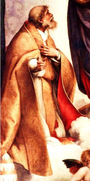 Detail of Saint Sixtus from Sistine Madonna, painting by Raphael c.1513